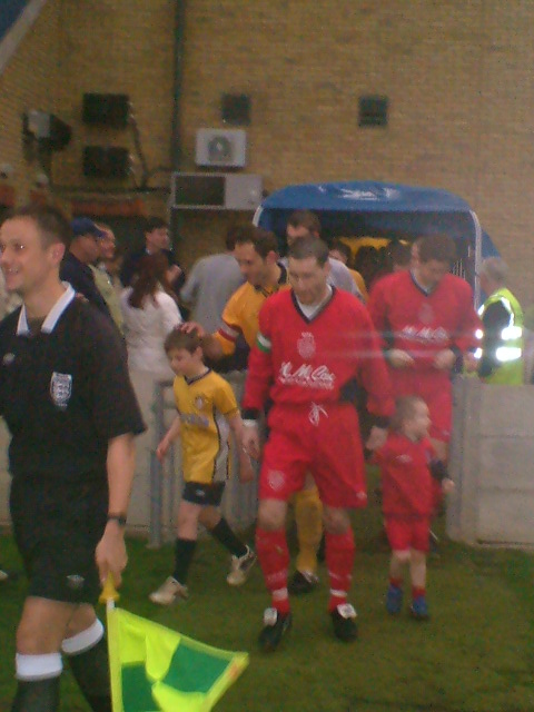 This is a photograph of the 2004-05 Isthmian Cup Final, taken and uploaded by myself. It isn't found anywhere else on the internet.